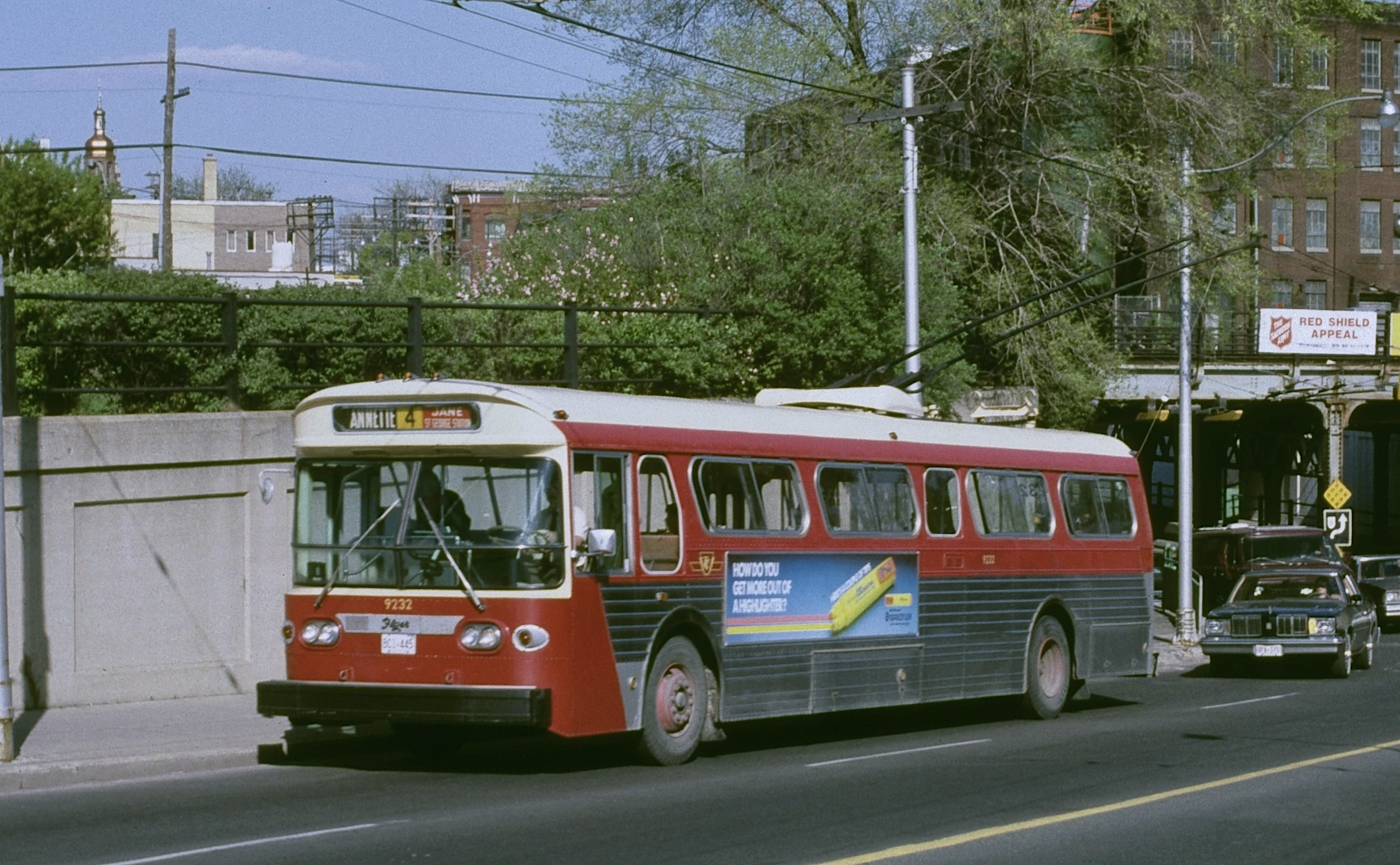 Toronto Transit Commission trolleybus 9232 westbound on route 4-Annette in 1987, in Toronto, Ontario. It is travelling west on Dupont Street just east of the intersection with Dundas Street and Annette Street. The vehicle was built in early 1971 by Western Flyer Coach Ltd. (which changed its name to Flyer Industries later in 1971 and, later still, became New Flyer Industries), but fitted – by the TTC's own staff – with recycled electrical propulsion equipment taken from 1947/48 CCF-Brill trolleybuses being retired. Toronto's Flyer trolleybuses were withdrawn in January 1992, and the last trolleybus service (routes 4 and 6) ended in July 1993.